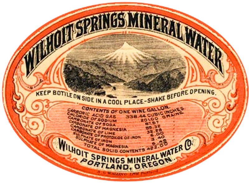 The label from a bottle of water from the soda springs at Wilhoit Springs Resort (1882-1928). For some time, resort owner Frank McLeran marketed the water in bottles bearing this label in Molalla and in Portland.